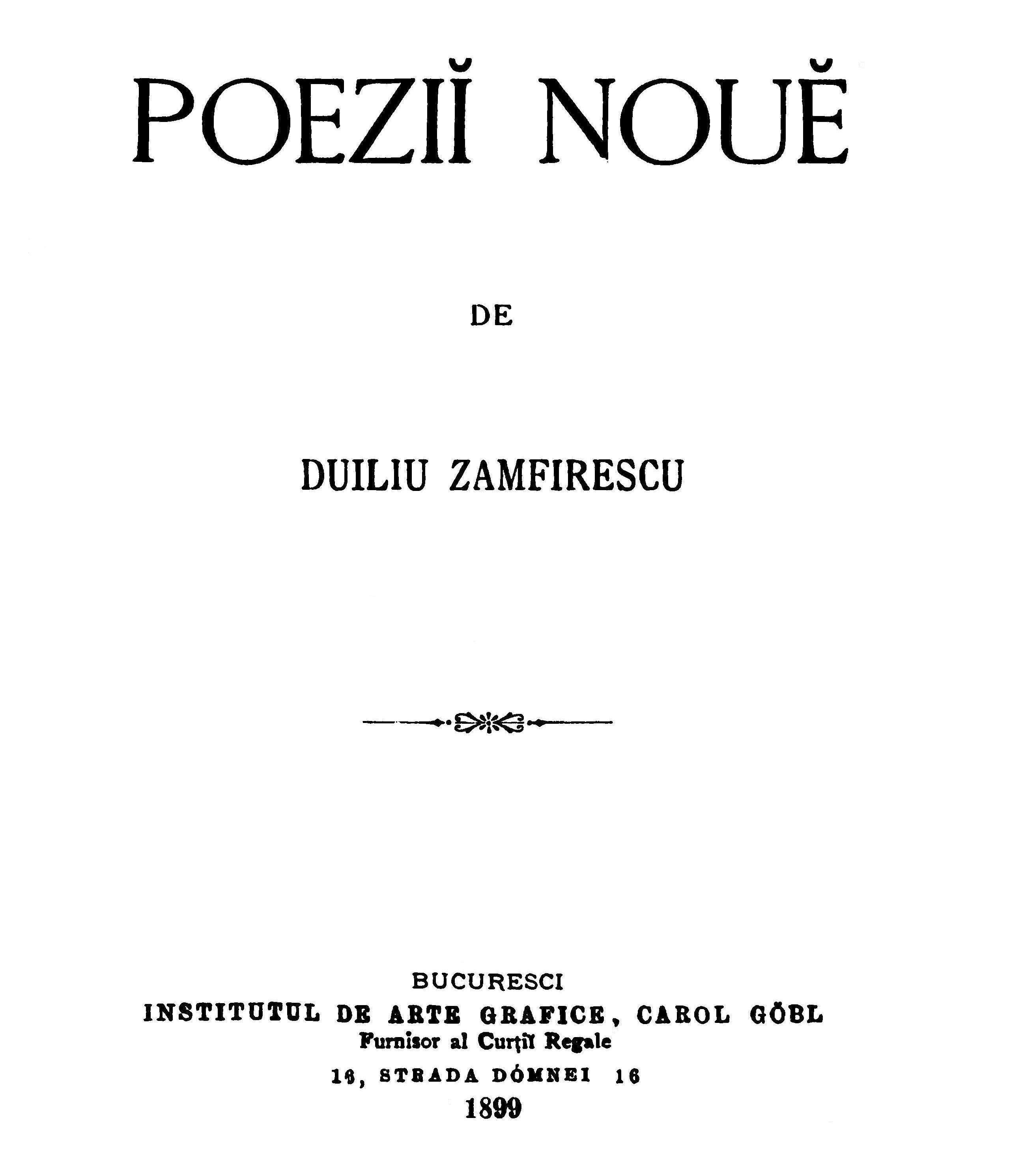 Duiliu Zamfirescu - First page of Poezii nouă, published by Institutul de Arte Grafice Crol Gobl in 1899.